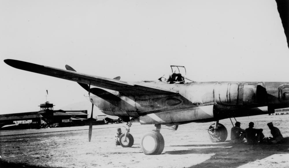 Garbutt Airfield Townsville, July 1942. Aircraft in the foreground is a Lochheed Lighning F4 Photo Reconnaissance plane probably with the 8th Photo Recon. Squadron, USAF based in Townsville, April - October, 1942. (Description supplied with photograph.).